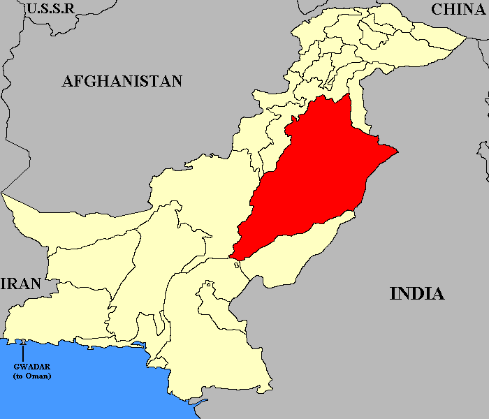 Approximate location of the former province of West Punjab within Pakistan